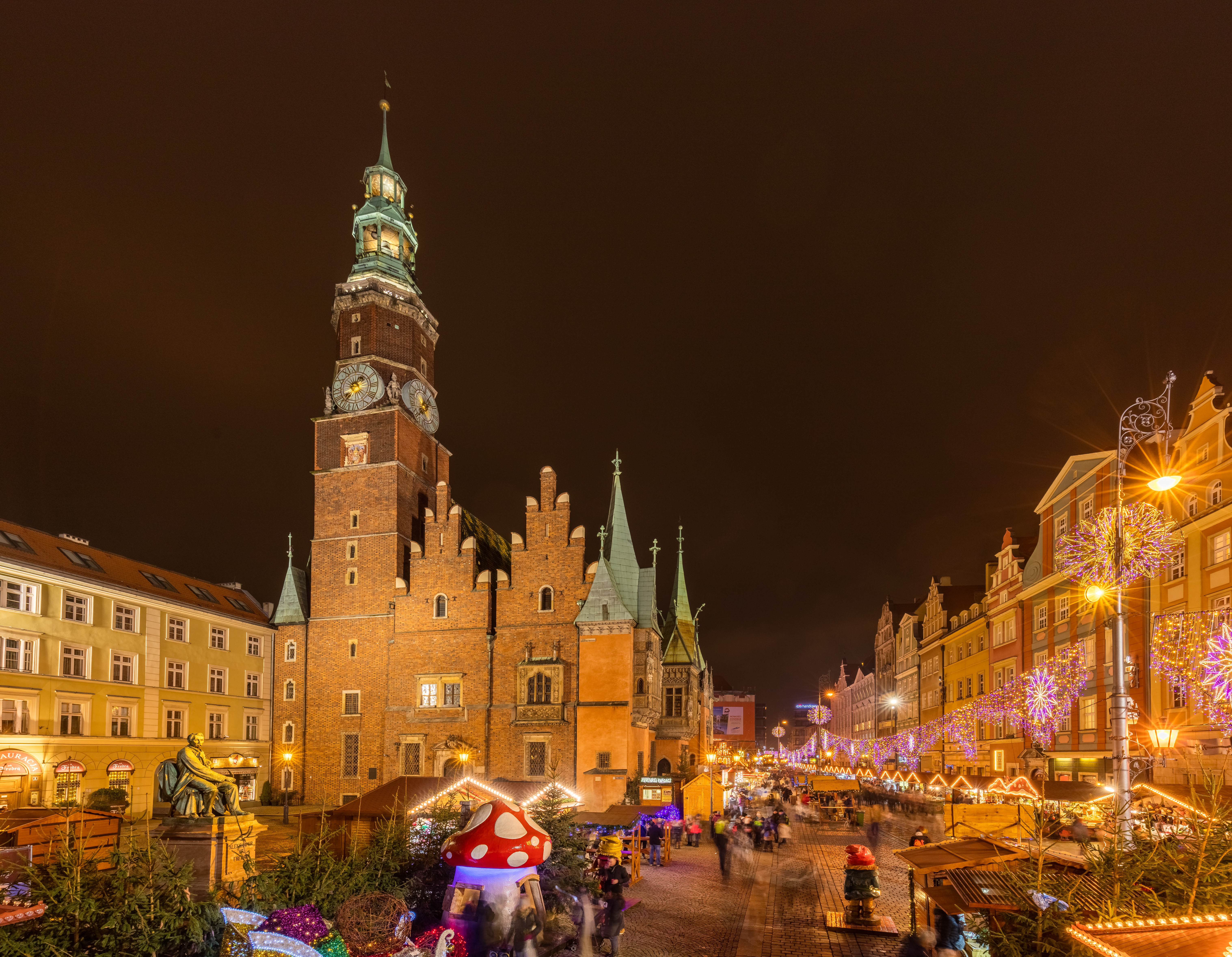 Christmas market, Market Square, Wrocław, Poland